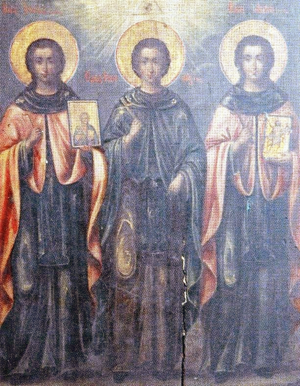 Icon of Jacob of Kostur (in the middle),1519/1520, end of 19 century